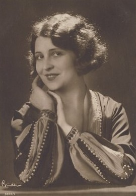 Portrait of German actress Claire Rommer (1904–1996) by Alexander Binder.